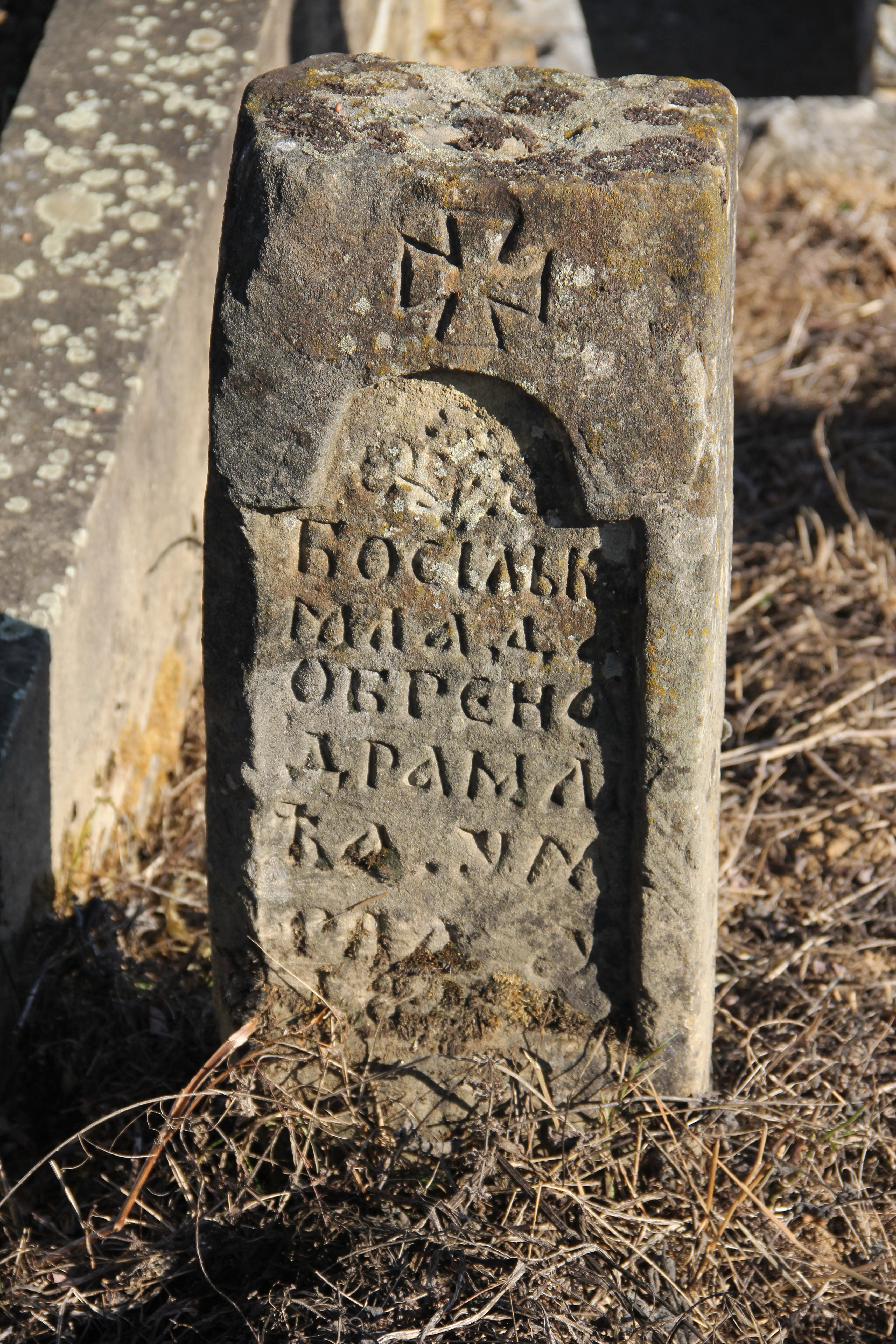 Old gravestones at the Andjelica cemetery in the village of Guca (the municipality of Lucani), Serbia.